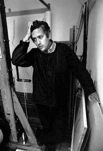 Jan Groth